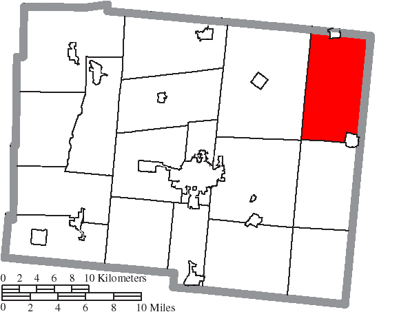 Map of the municipal and township boundaries of Logan County, Ohio, United States, as of the 2000 census, with the location of Bokes Creek Township highlighted. Township borders are shown only in unincorporated areas in order to differentiate incorporated and unincorporated areas more clearly.